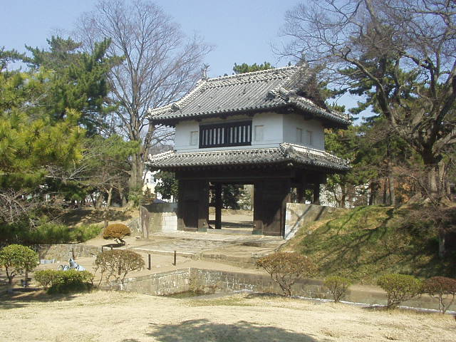 Taikoyagura gate of Tsuchiura castle